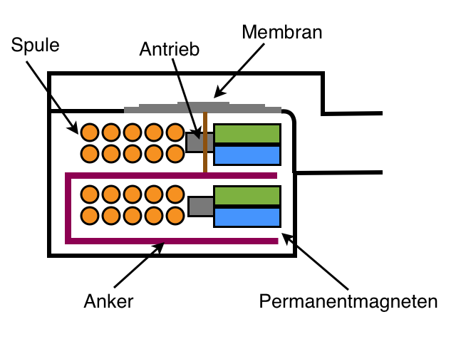 Schematic cross-sectional view of a balanced armature (BA) driven headphone speaker